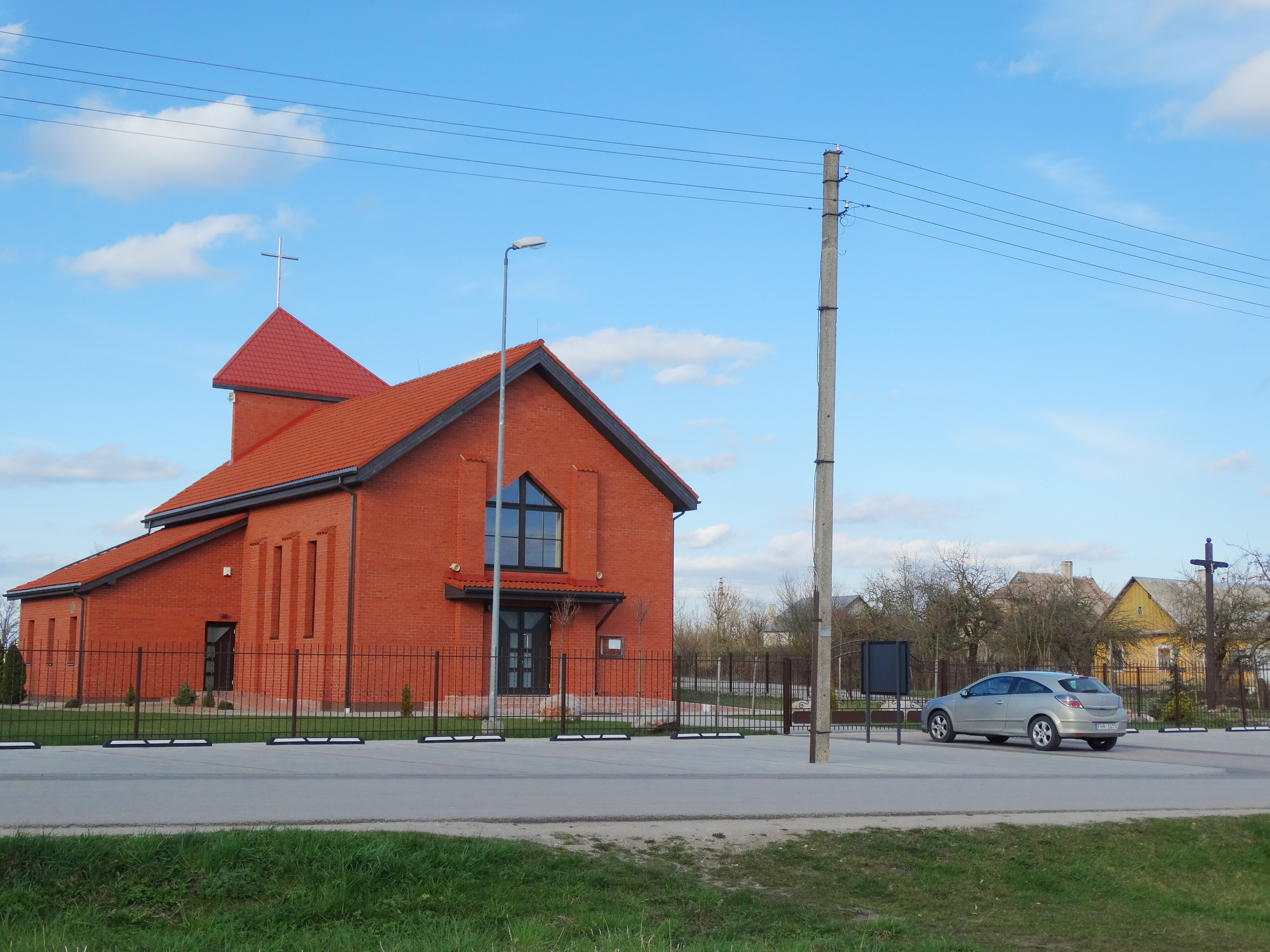 Saint Raphael Kalinowski church, Nemėžis, Vilnius district, Lithuania